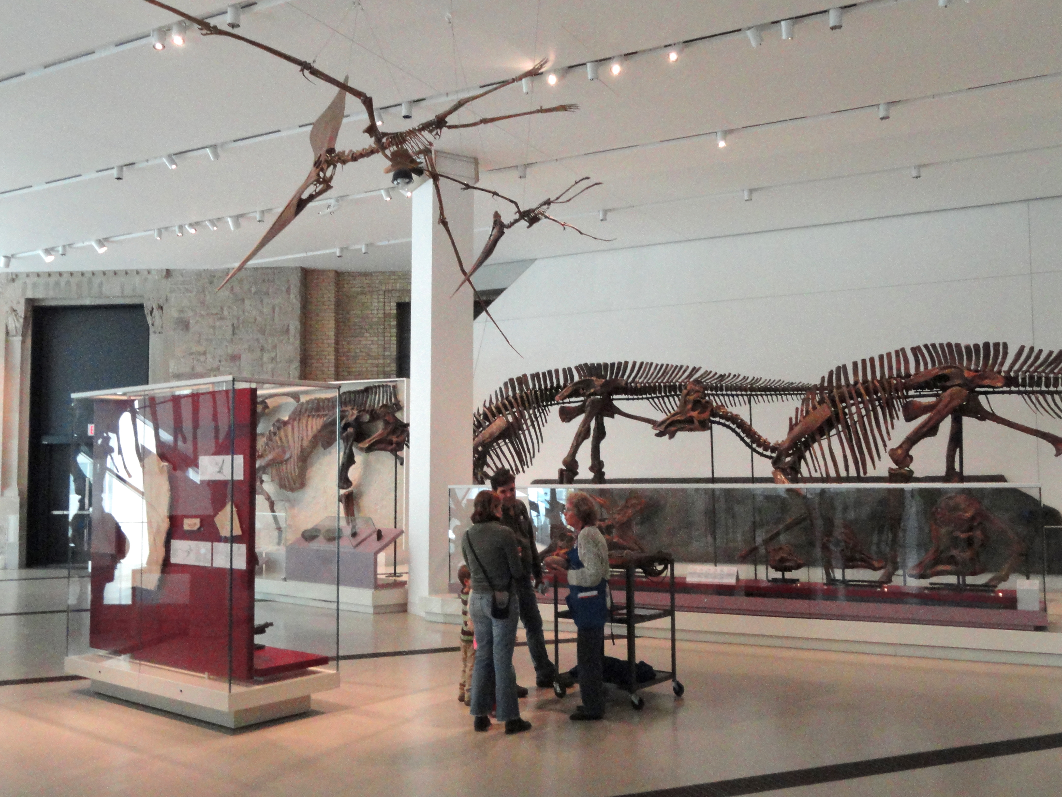 Exhibit in the Royal Ontario Museum, Toronto, Ontario, Canada. This exhibit is old enough so that it is in the public domain, and photography was permitted in the museum. I took this photograph and release it into the public domain.